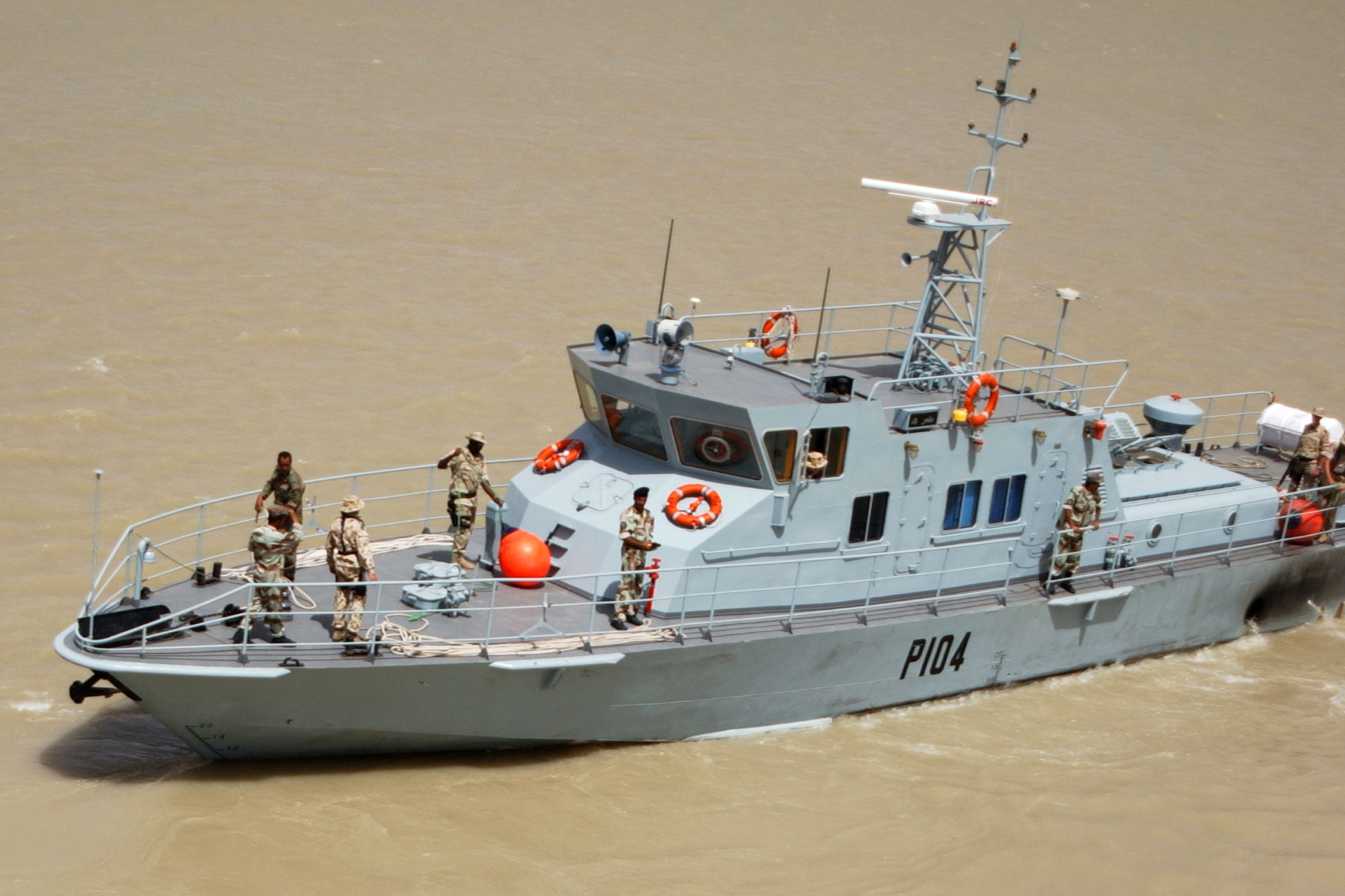 Iraqi Coastal Defense Force (ICDF) Patrol Craft 104 gets underway to provide a demonstration during the opening ceremony for the ICDF base at Umm Qasr, Iraq. The ICDF was created in January 2004 and has been training under British-led coalition forces. The ICDF will provide anti-smuggling, policing, search and rescue and various other capabilities along the Iraqi coastline.